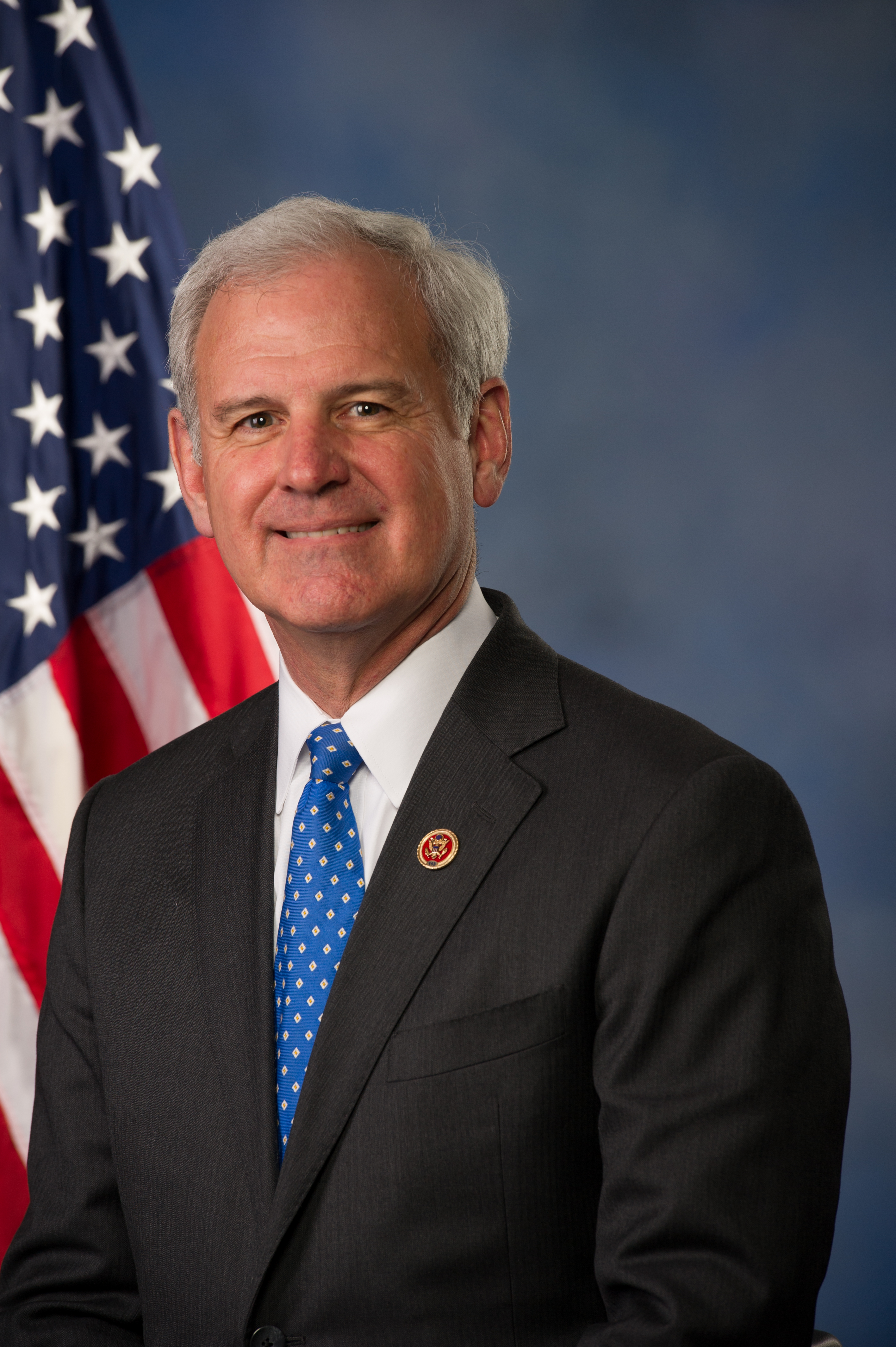 Official portrait of U.S. Representative Bradley Byrne (R-AL).